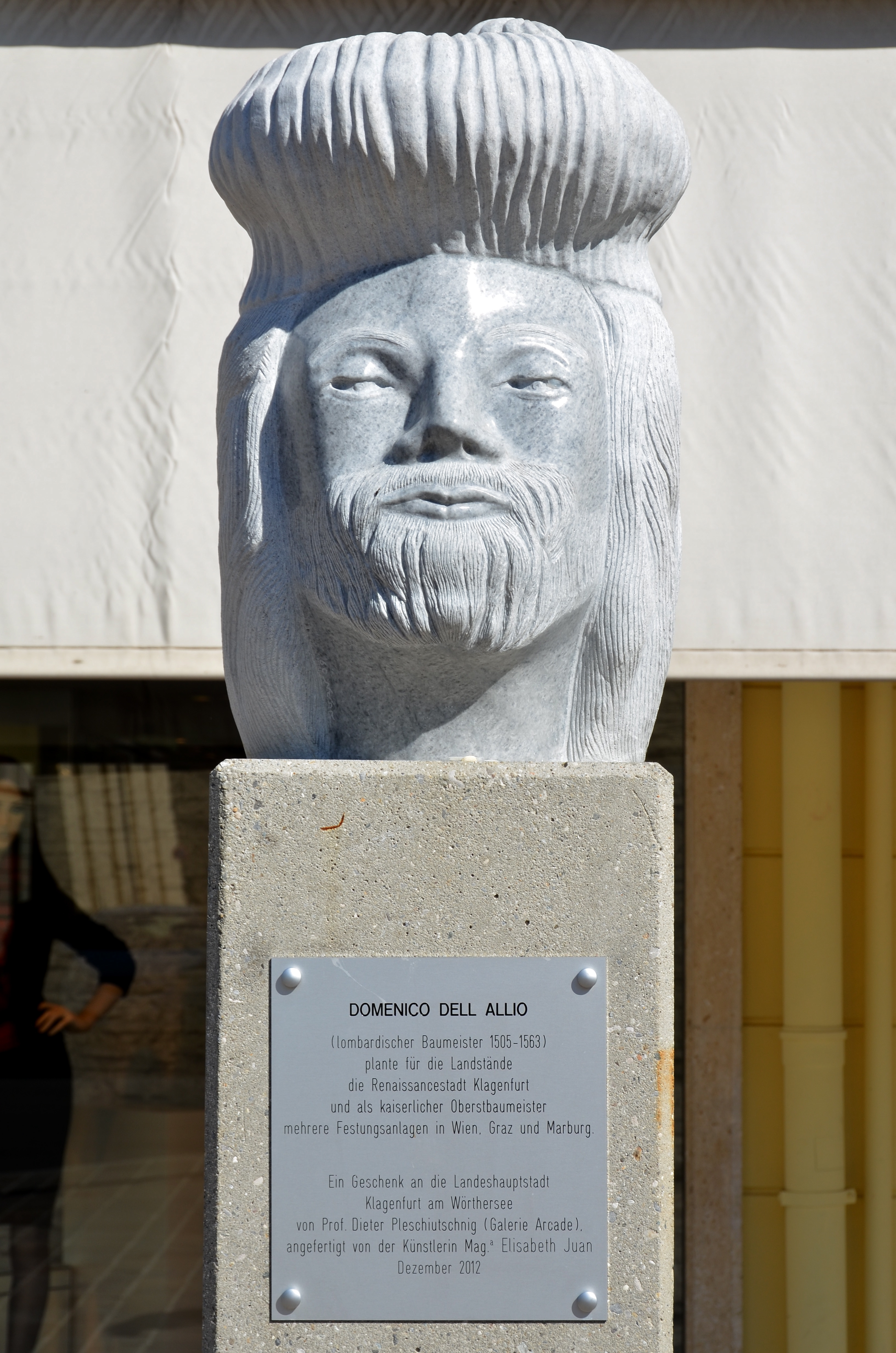 Marble head of Renaissance architect Domenico dell’Allio, created by Mag. Elisabeth Juan in 2012 and set up on concrete base, on the 10.-Oktober-Strasse in Klagenfurt, inner city, capital of the state Carinthia / Austria / EU